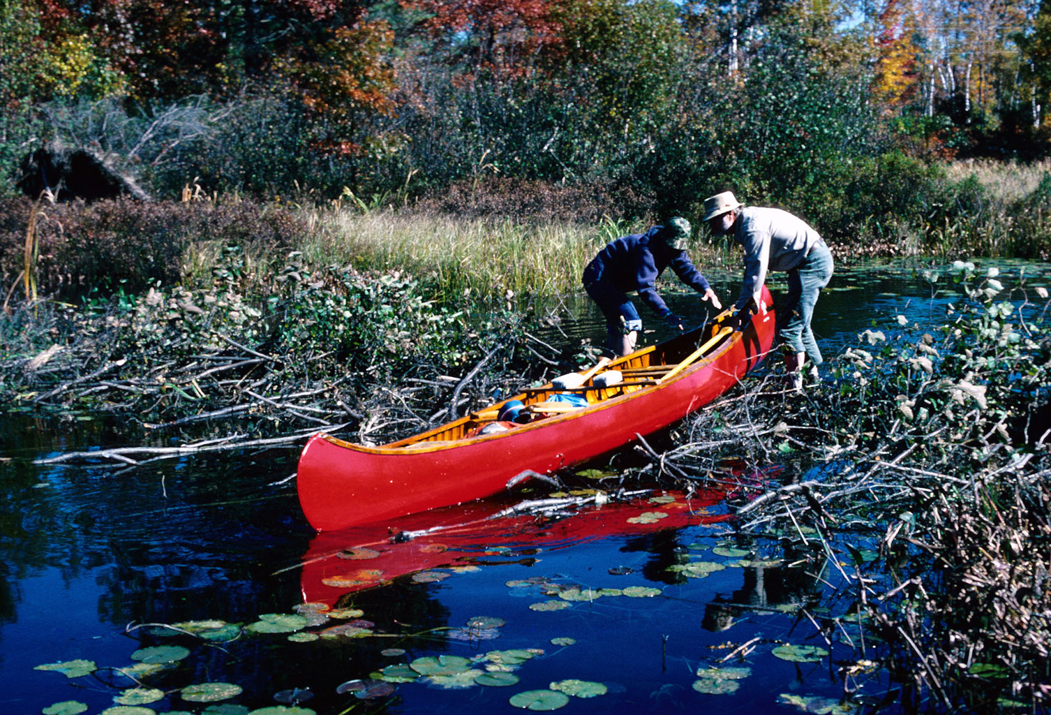 A couple portaging over a beaver dam in the Manitowish Waters, Wisconsin.